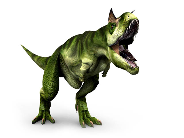 Carnotaurus